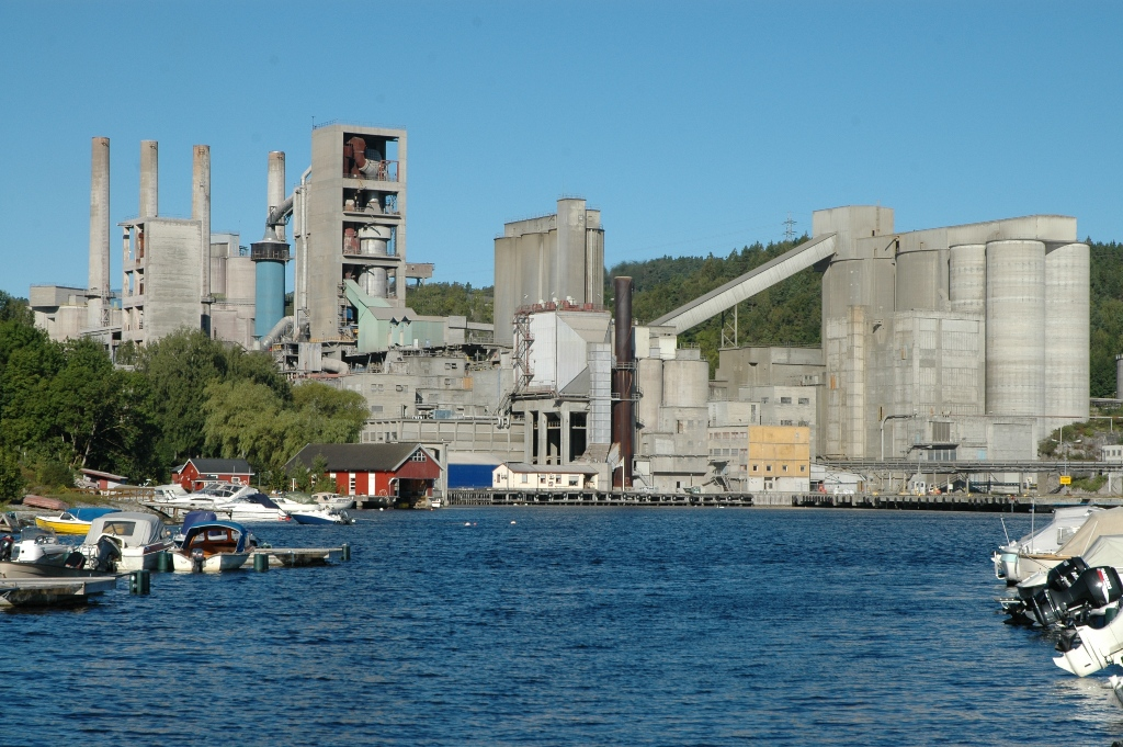 Norcem cement plant in Brevik, Norway, seen from the sea